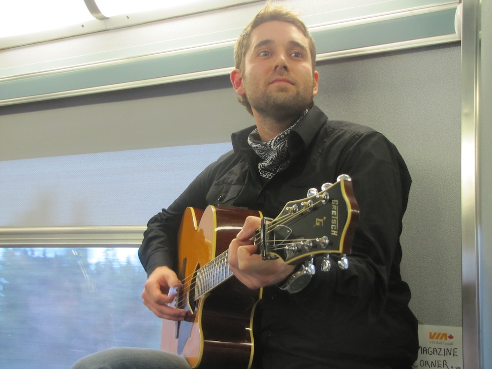 Canadian musician Ryan Cook performing on board 'The Canadian' enroute from Toronto to Edmonton